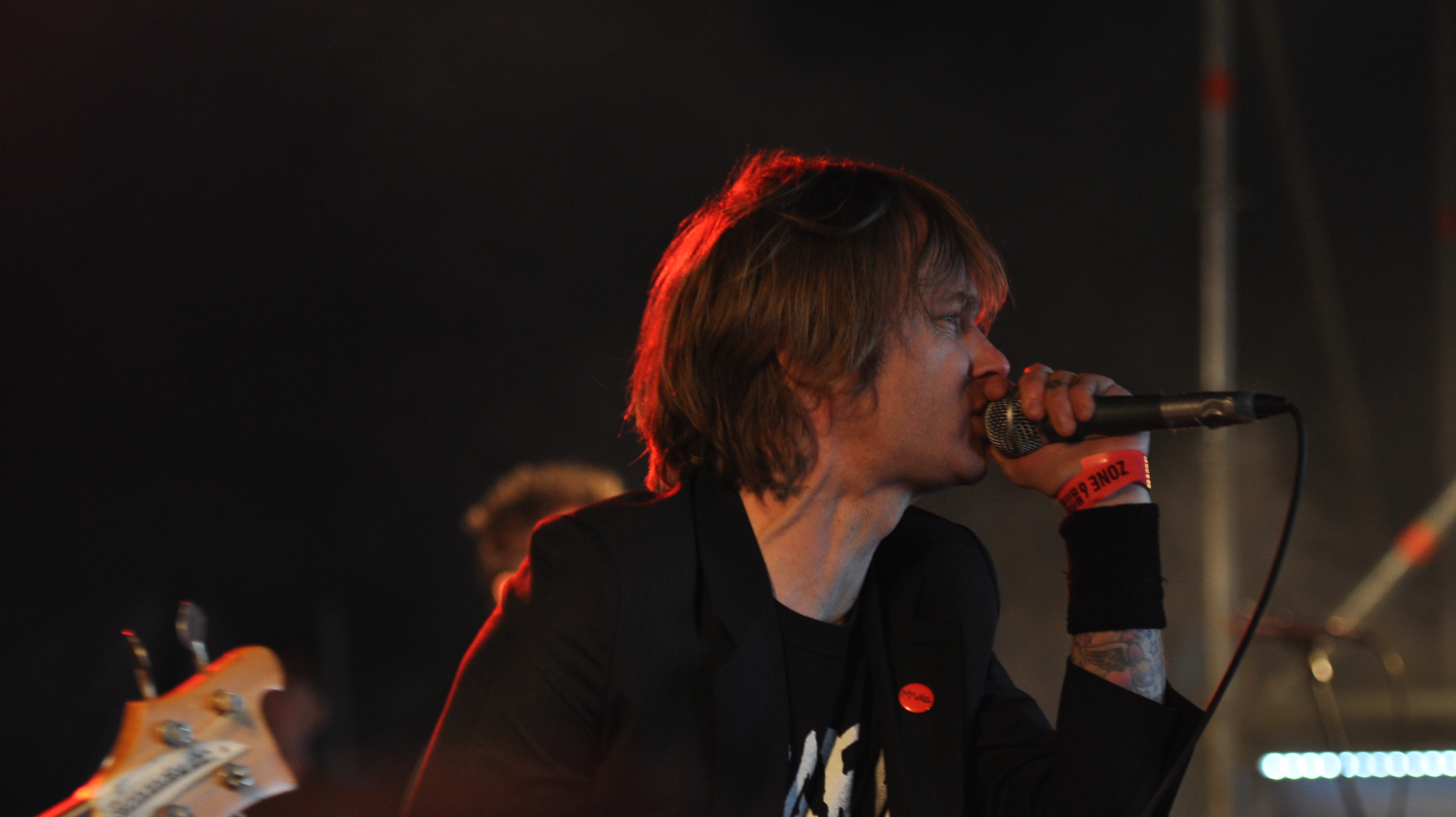 Dennis Lyxzén of the swedish punk band AC4 at Groezrock 2013